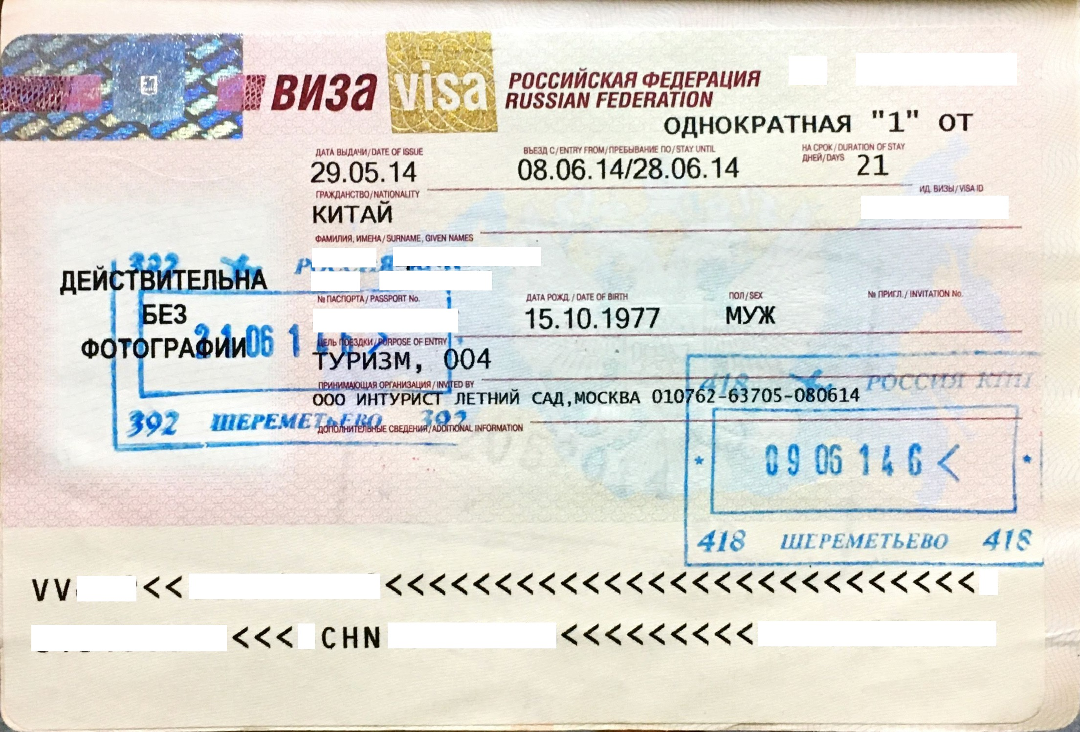 Visa of Russian Federation on a Chinese Passport